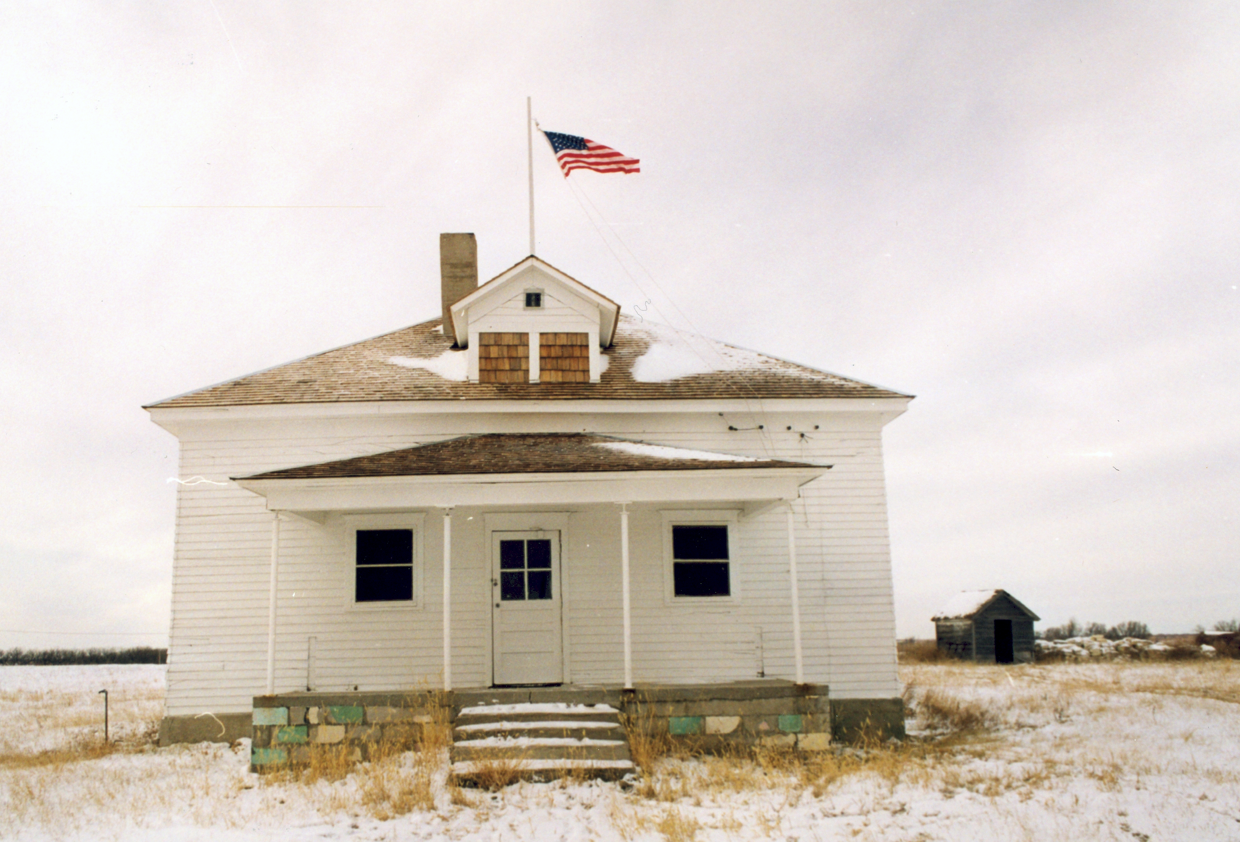 An all Black Town settled by former slaves fleeing the south in 1877 after the Reconstruction Period had ended following the Civil war is located in the Northwest corner of Kansas. This living community is the only remaining all Black Town west of the Mississippi River that was settled in the 1800’s on the western plains by former slaves.